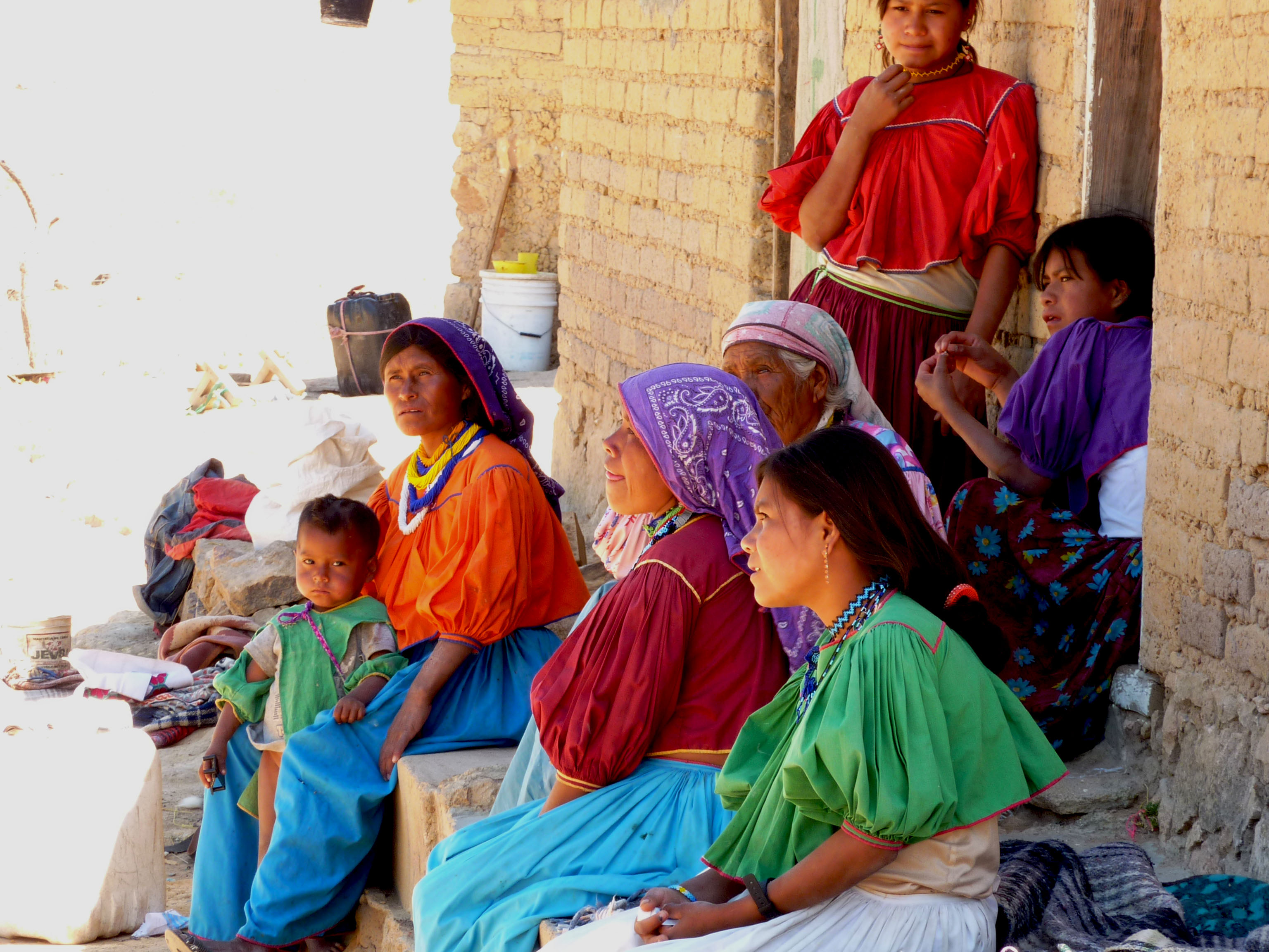 Huichol woman wear their own jewelry to beautify theirselves.